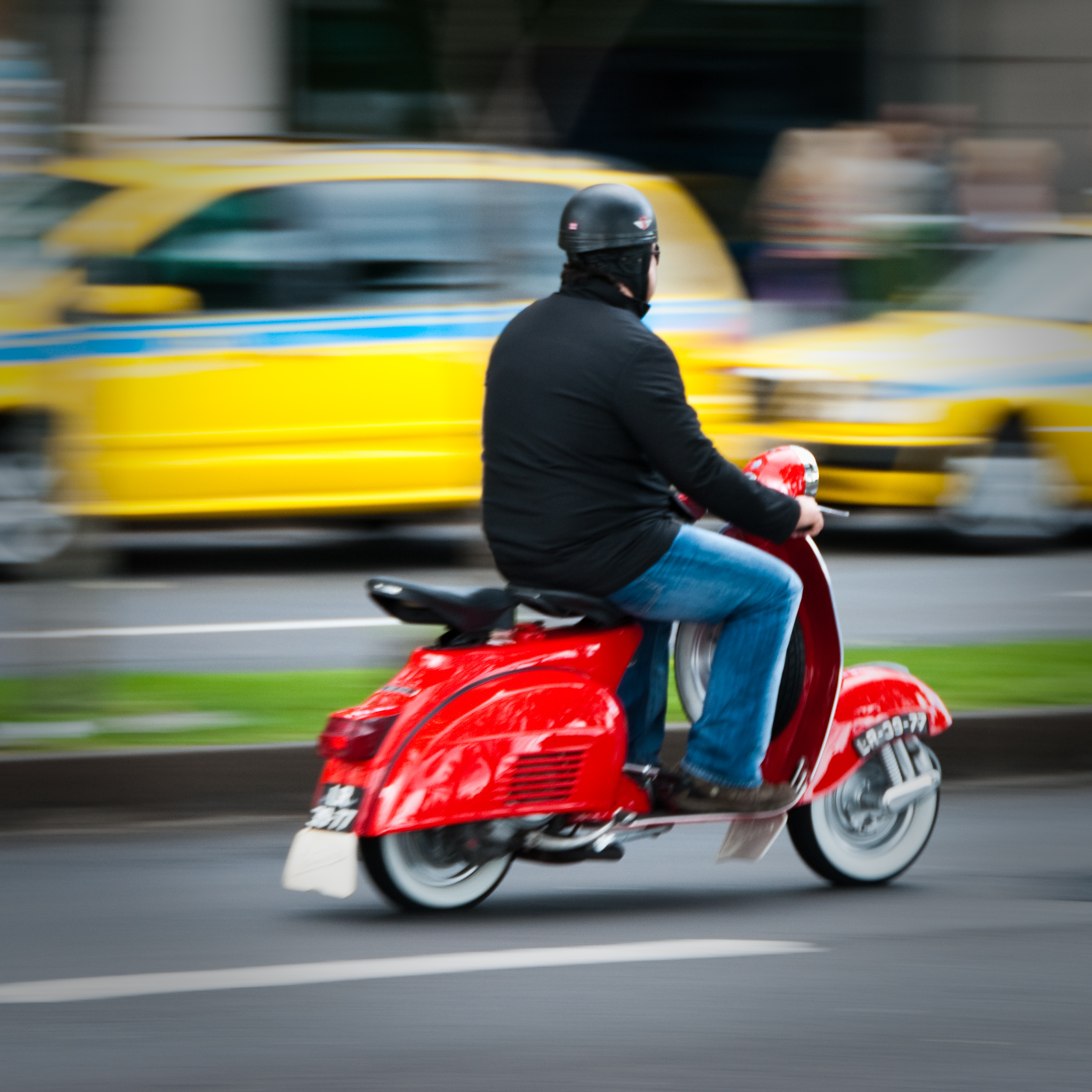 Seen on the Avenida Do Mar, Funchal, Madeira Island